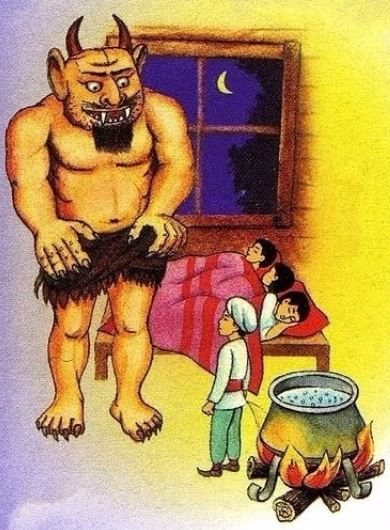 Europa 2010 - Baby Books